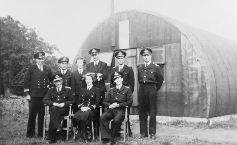 Some of the Technical Officers on the Allied Naval Command Expeditionary Force Who Were Responsible For the Basic Planning and Co-ordination of the Repair, Recovery, and Fuelling Organisation For Ships and Craft Operating Off Normandy during Operation Overlord Admiral Morgan and his staff: Front row, left to right: Engineer Rear Admiral Morgan, CB; Third Officer Farqhaur, WRNS; Constructor Captain Merrington, OBE, RCNC. Back row, left to right: Lieutenant (E) Swailes, RN; Lieutenant (E) Lloyd, RNVR; Wren Salter; Electrical Lieutenant Commander Lock, RNVR; Commander (E) E H D Williams, RN; Constructor Lieutenant Commander Brooks, RCNC.